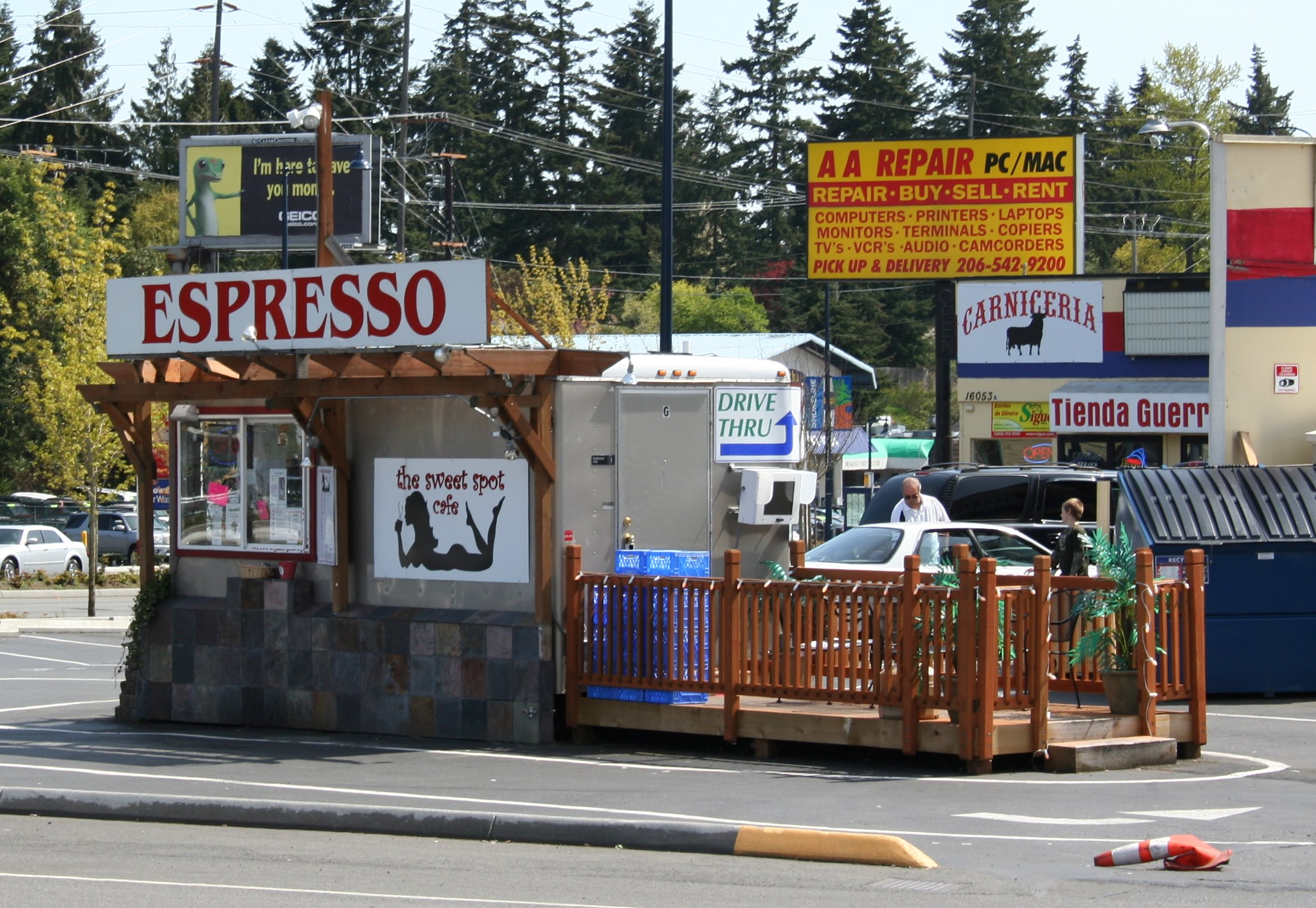 The Sweet Spot Cafe espresso hut in Shoreline, Washington, taken May 2008. Example of a "bikini barista" coffee shop, popular in the Seattle area.